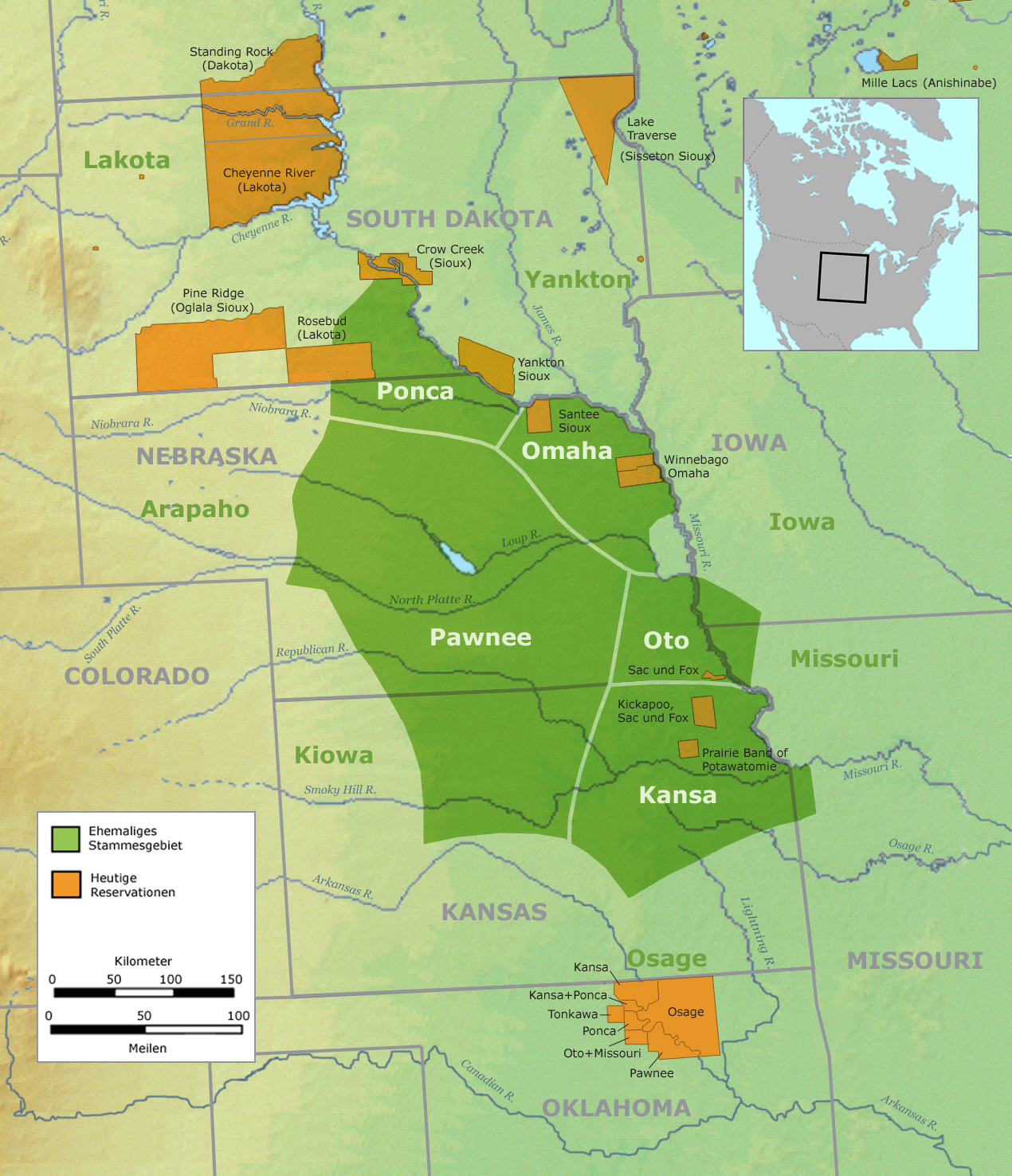 Tribal territory of Pawnee, Ponca, Omaha, Oto, Kansa peoples (labeled in green) and contemporary Indian Reservations (labeled in orange)